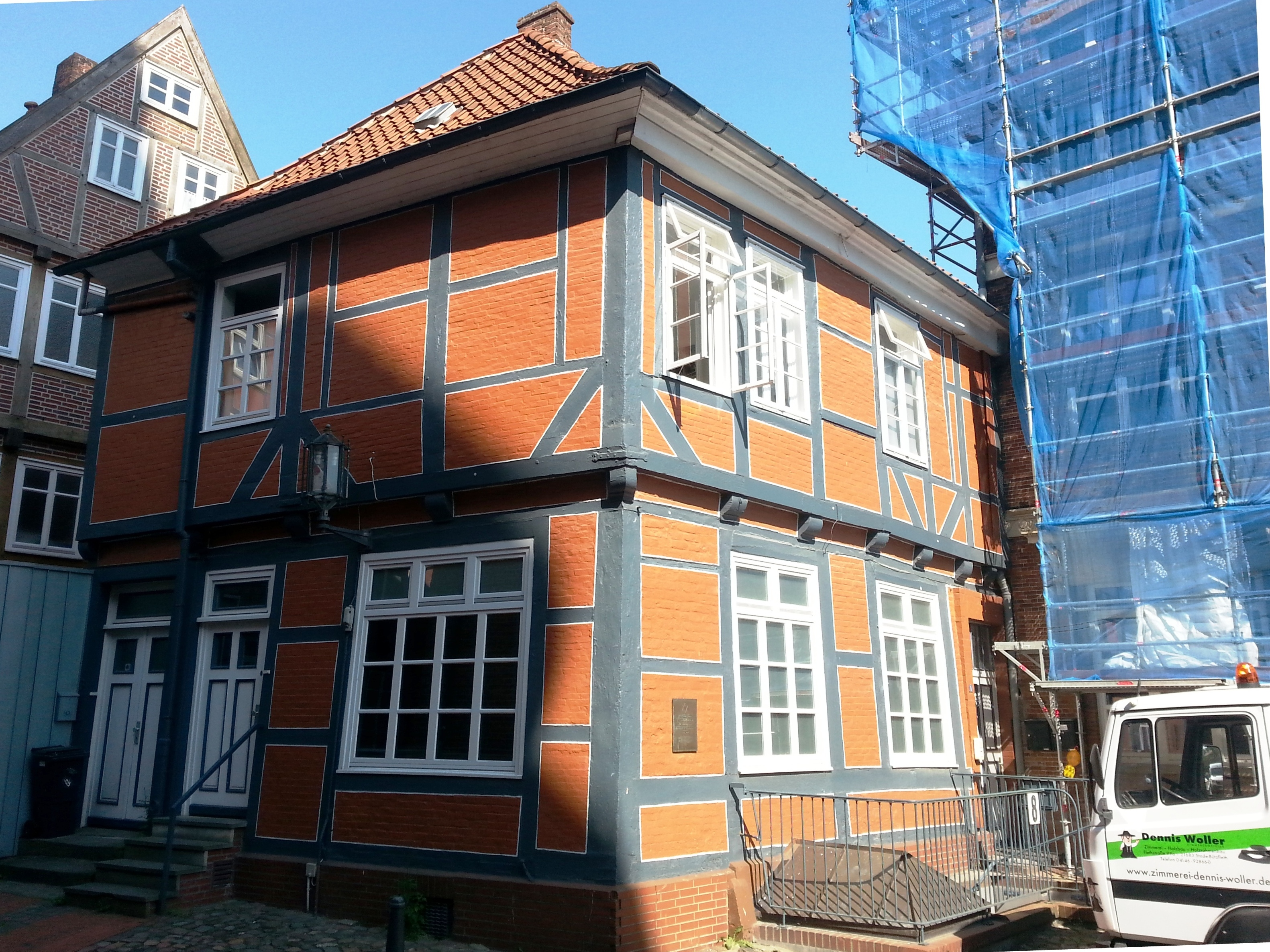 The former Synagogue of Stade, the actual prayer hall was on the first floor and used as such between 1873 and 1908 by the Stade Synagogal Congregation (Synagogengemeinde Stade, est. by 1811, dissolved in 1941). This location, the timber-framed rear building of Hökerstraße #26, was at times addressed as Hökerstraße #27, however, technically it is accessible from the street Cosmaekirchhof on the northern façade of Ss. Cosmae et Damiani Church. Seen from southeast.